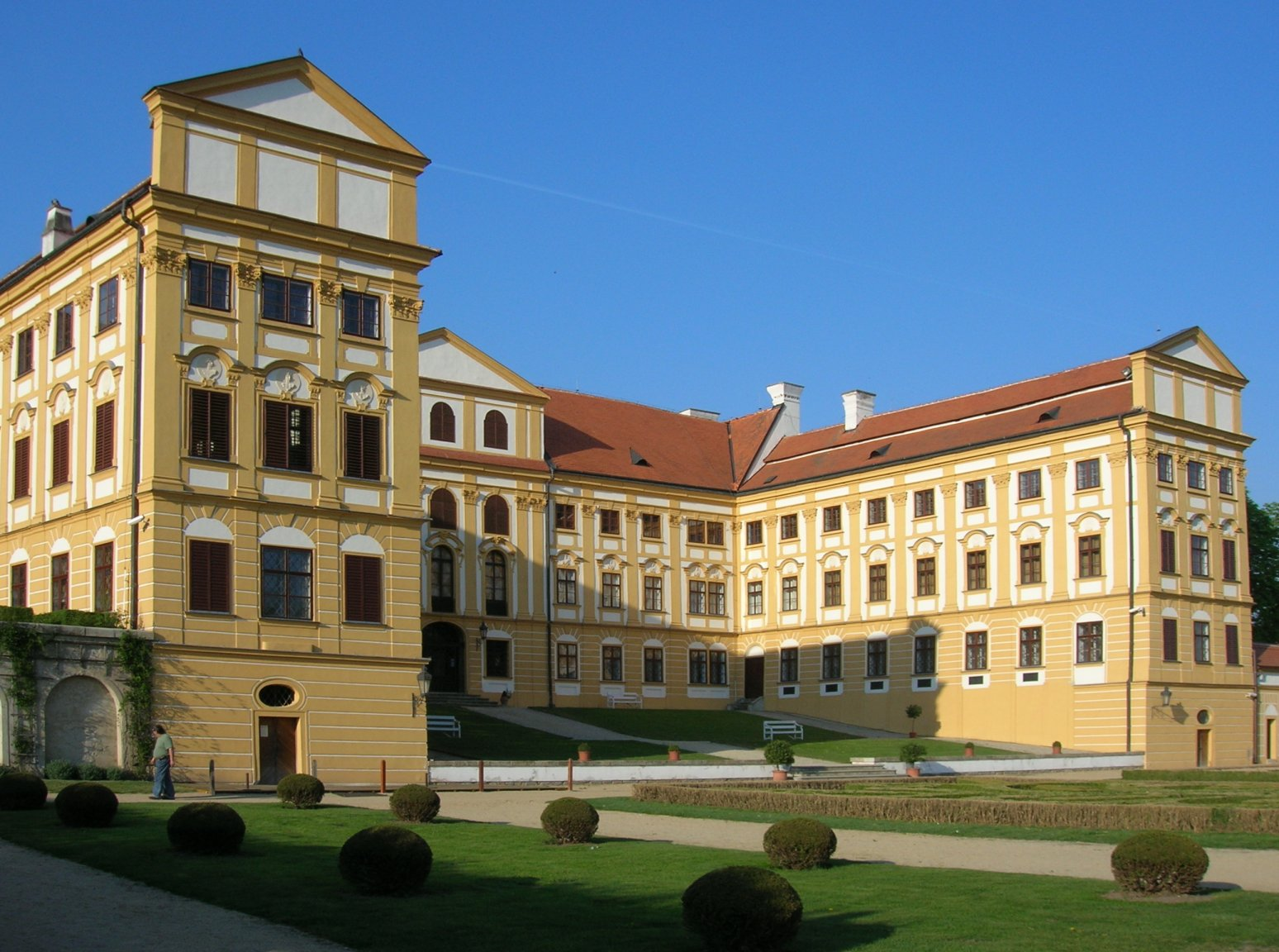 Jaroměřice nad Rokytnou. Baroque castle.